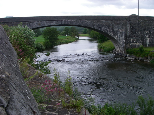 Pont Llandeilo Built in the middle of the 19th century this imposing stone arch bridge spans the Afon Tywi to the south of Llandeilo. It was once considered one of the wonders of Wales.